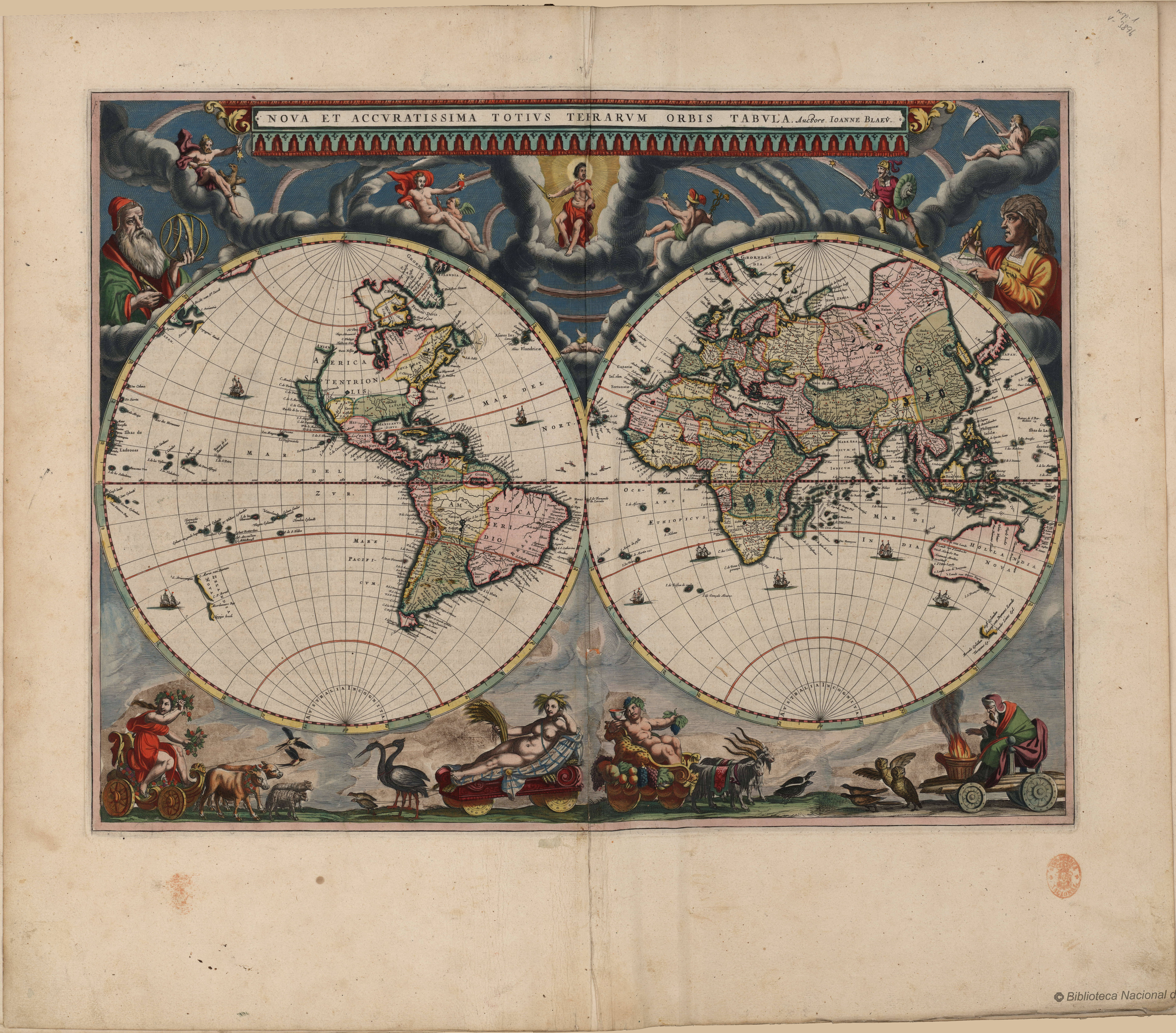 New and 'most accurate' world map, by J.Bleau.